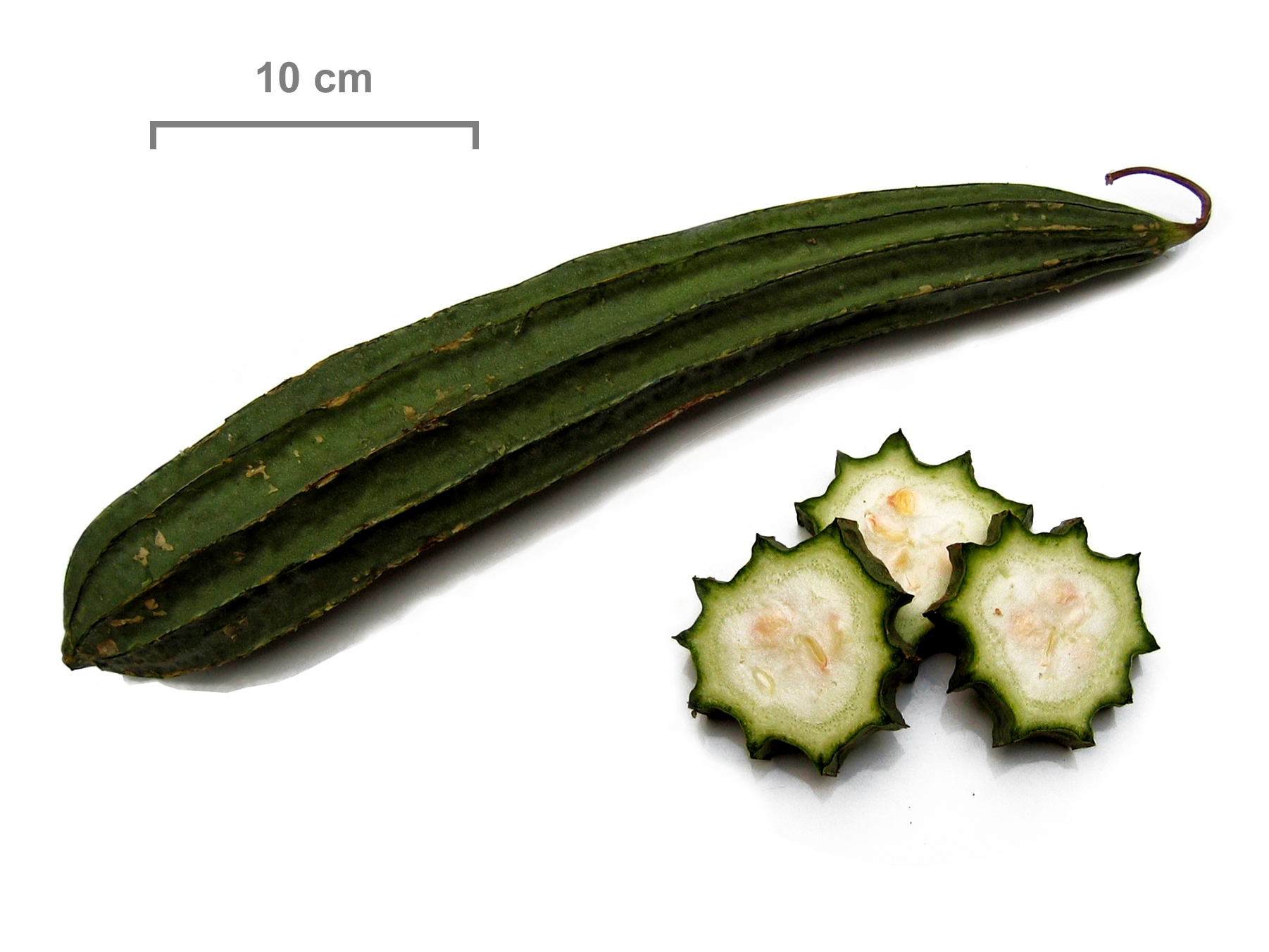 Ridge gourd (37 cm long) — Luffa acutangula - (L.) Roxb.